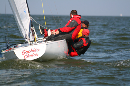 Winner 2008 Vintage Yachting Games Soling